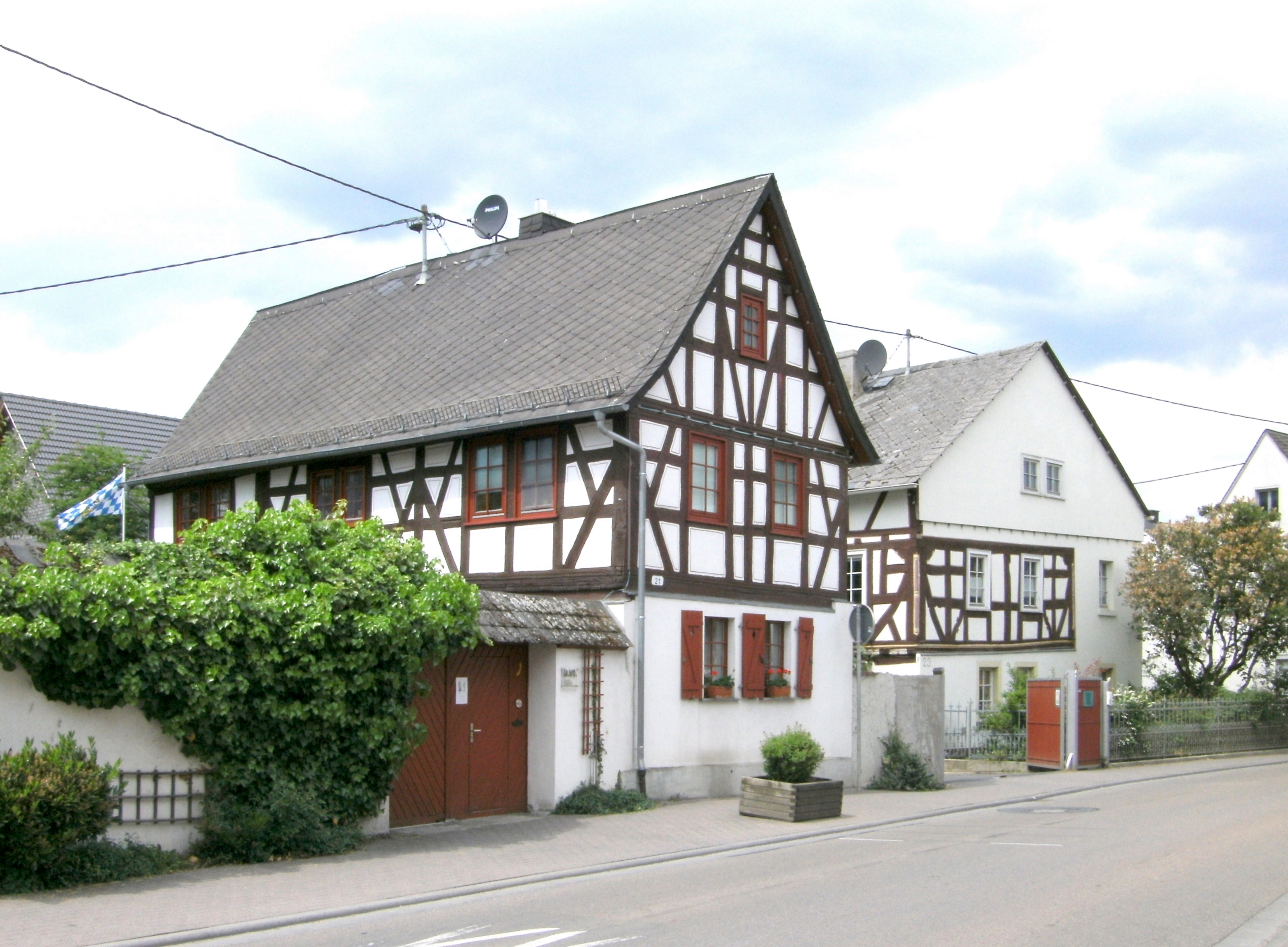 Dwelling house Langstrasse 21 in Hadamar-Steinbach, Germany